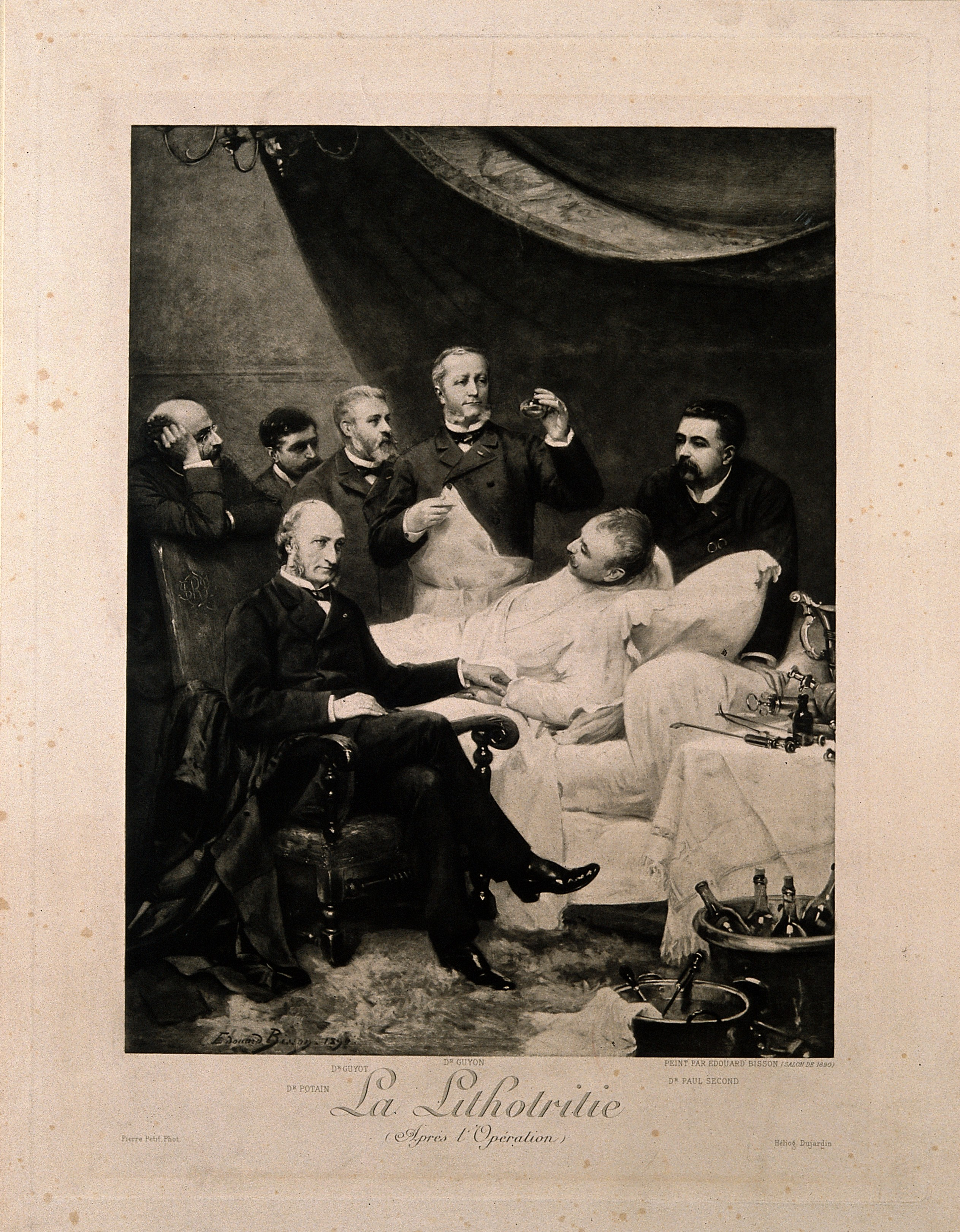 Jean-Casimir-Félix Guyon holding up a gall-stone in a bottle after performing a lithotrity on a male patient, other doctors monitor the patient's condition. Heliogravure by Dujardin after E. Bisson, 1890. Iconographic Collections Keywords: J. Guyot; Paul Segond; Jean-Casimir-Félix Guyon; Pierre-Carl-Édouard Potain; Edouard Bisson